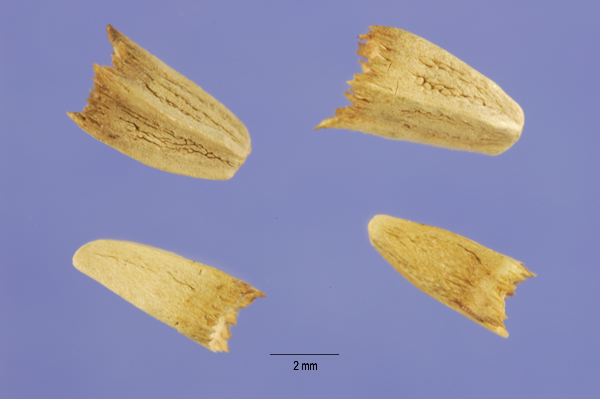 Echinacea purpurea (Purple-cornflower) : Fruits - Highland Park, Illinois, United States.